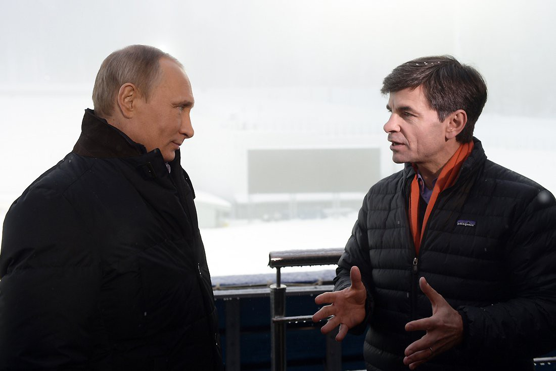 Vladimir Putin's interview about Olympics in Sochi (2014-01-17). With ABC News reporter George Stephanopoulos.